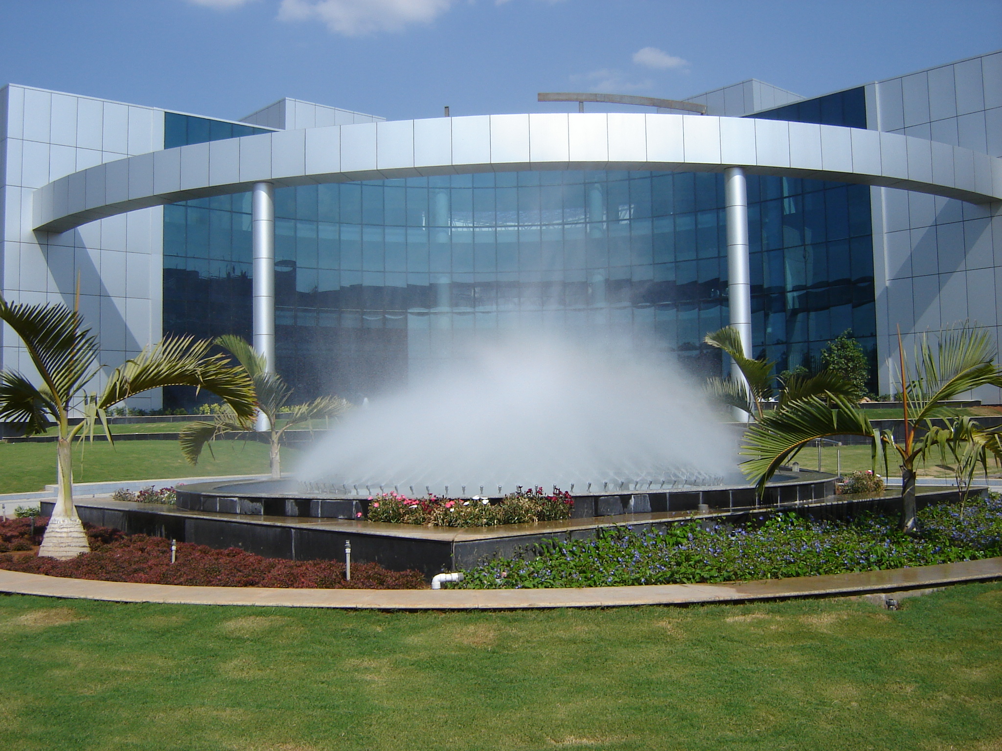 Pic of Dev Center at Satyam tech Center,Hyderabad,India Author :ranjit nair Pic taken by self